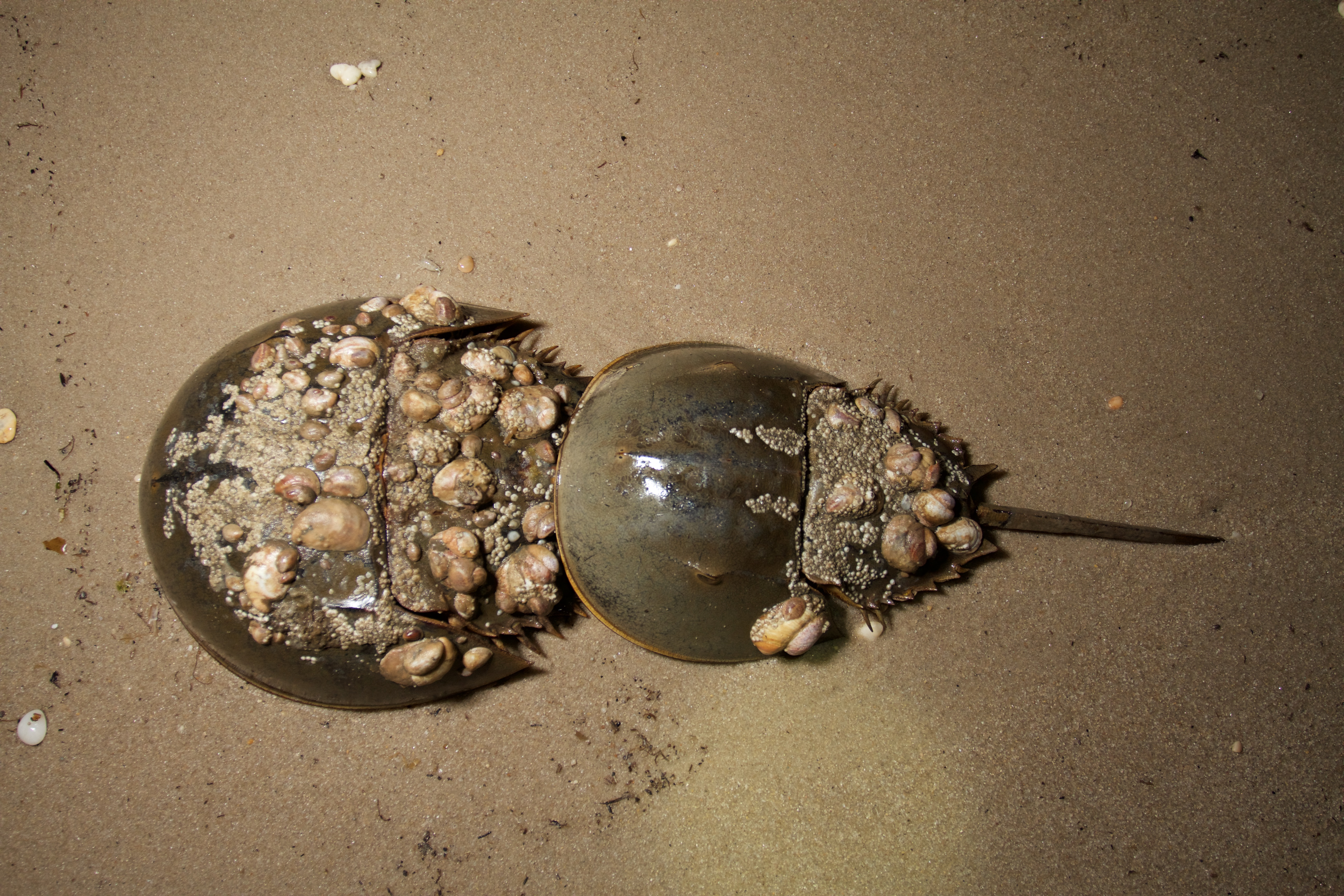 Horseshoe crab